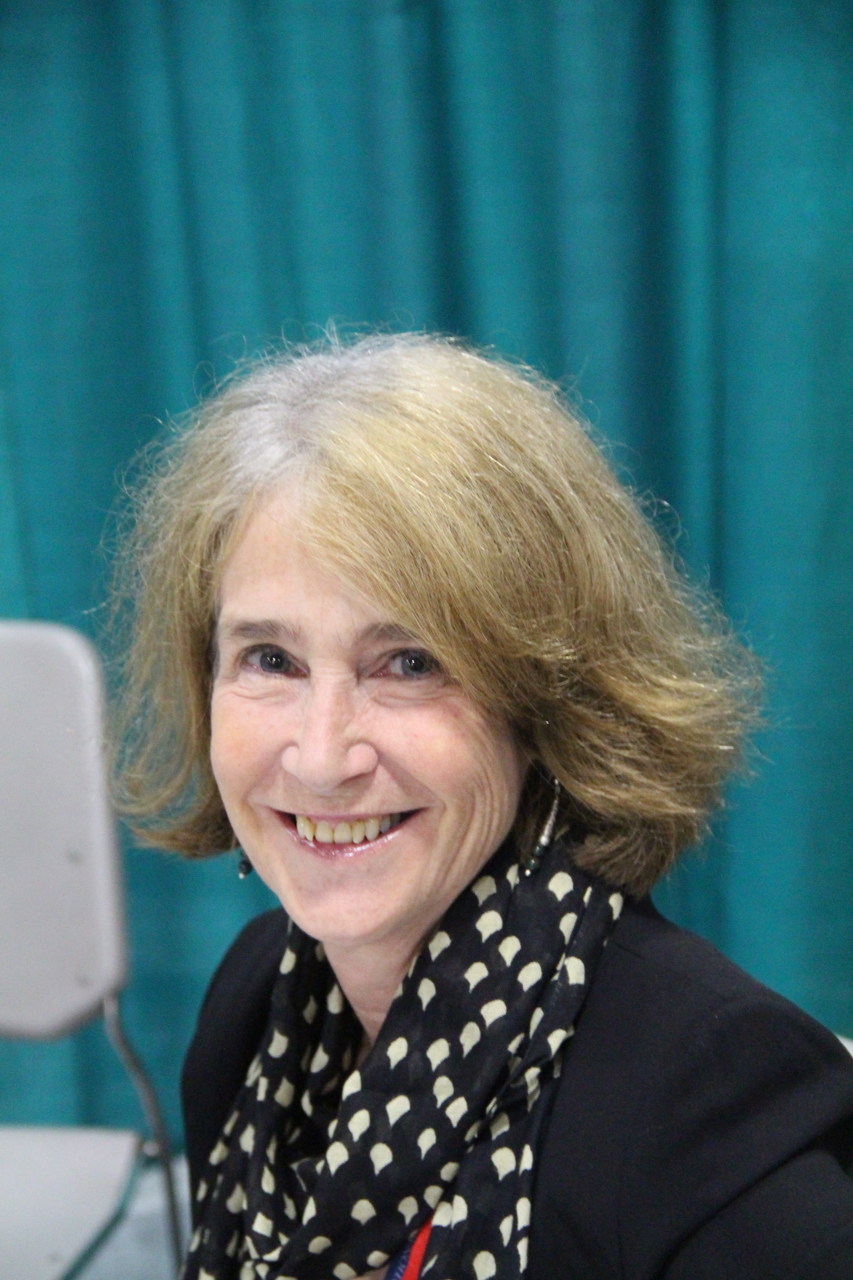 2015 Library of Congress National Book Festival September 5, 2015 Washington, DC